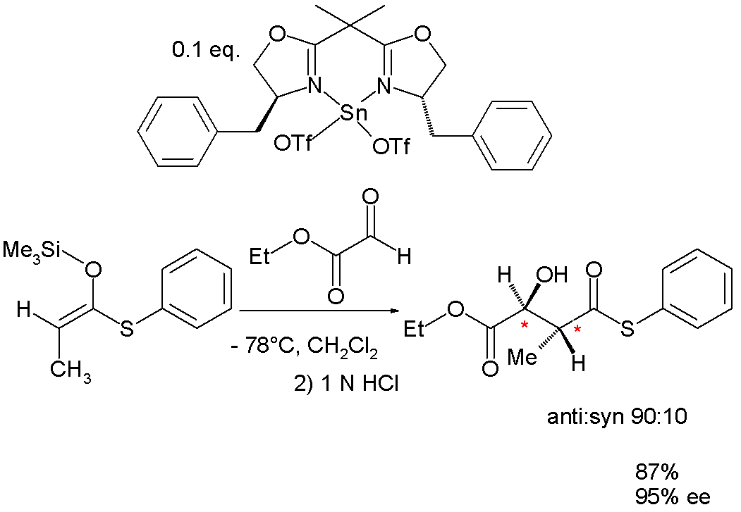 BOX catalyzed Aldol Addition Evans 1997